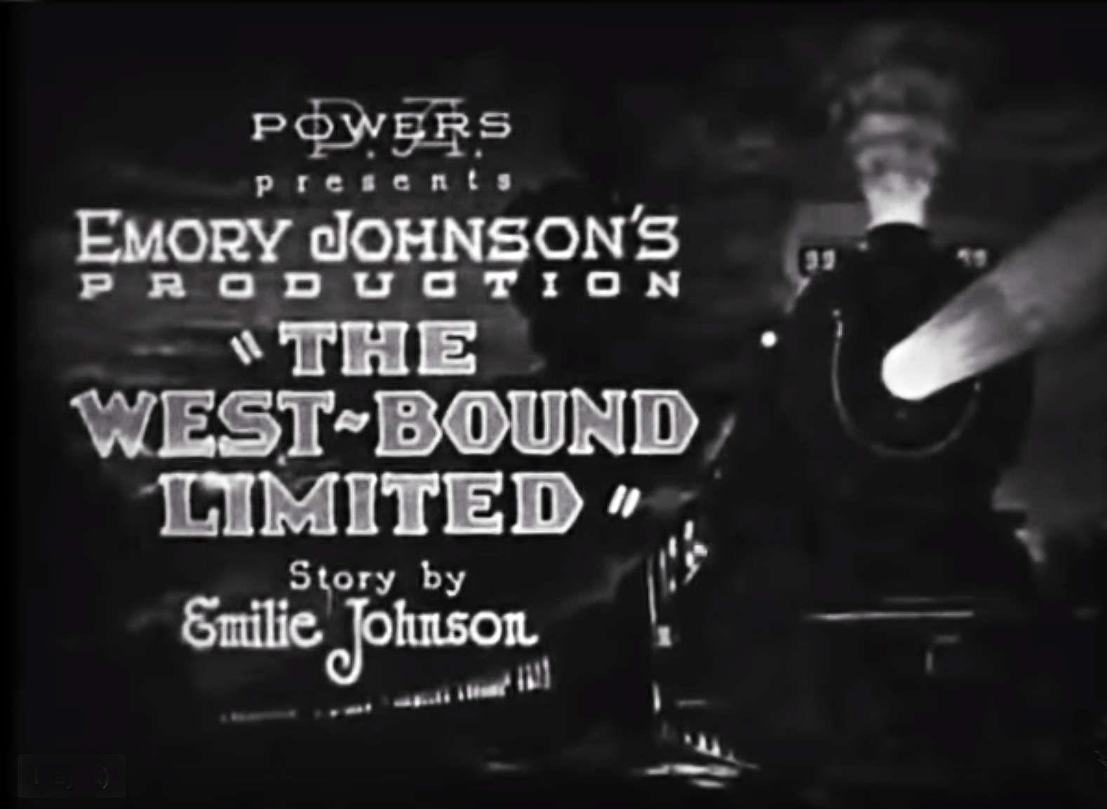 Opening movie title for the American film The West~Bound Limited (1923).